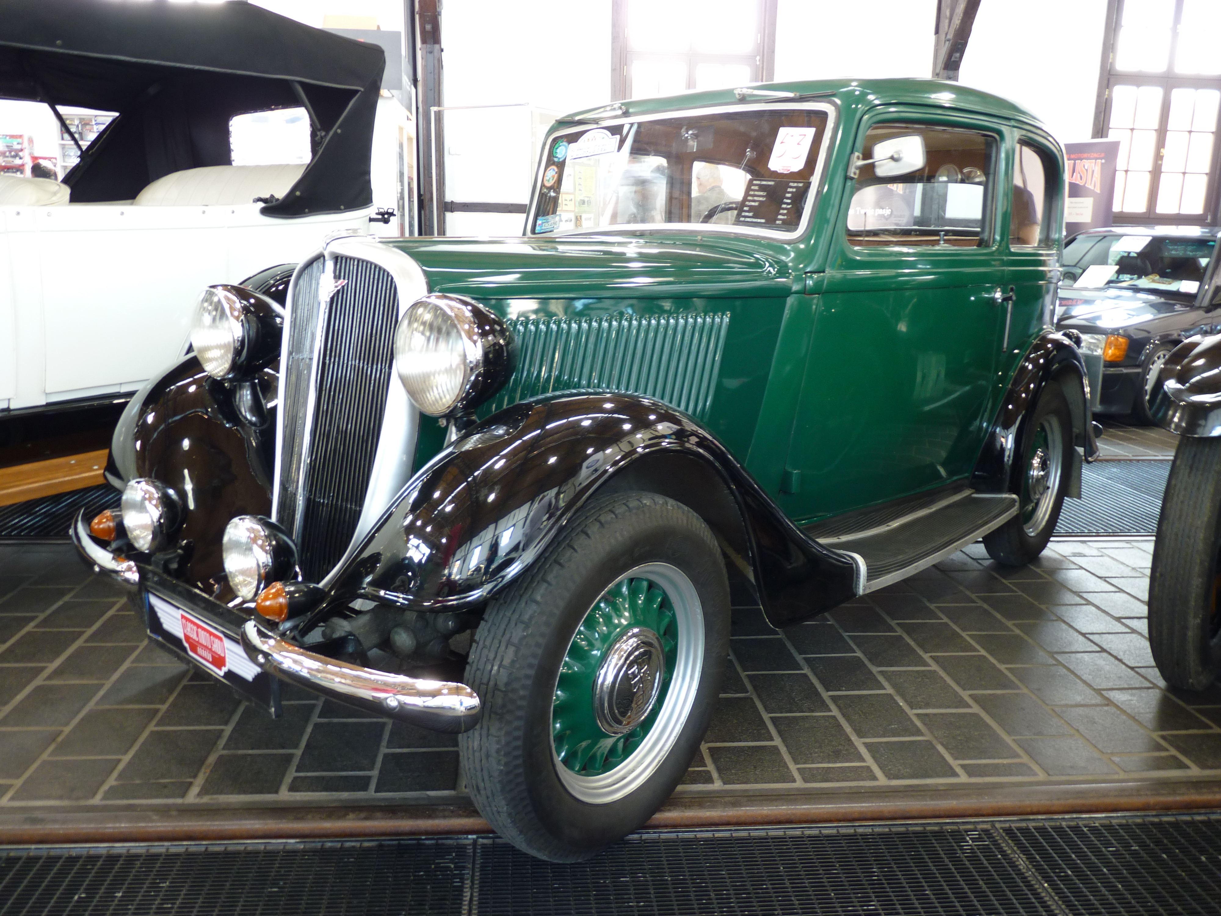 Classic Moto Show 2014 in Kraków. The categories of this image should be checked. Check them now! Remove redundant categories and try to put this image in the most specific category/categories Remove this template by clicking here (or on the first line)